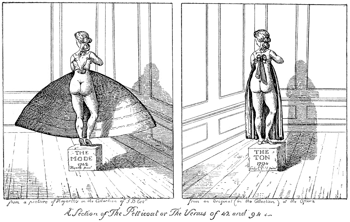 "A section of The Petticoat, or The Venus of 1742 and 1794", an English caricature engraving (presumably from 1794), comparing cutaway views of the fashion silhouettes of the two years (contrasting the hoop-skirt of 1742 with the somewhat narrow and high-waisted -- i.e. incipiently neo-classical -- gown of 1794). The left half is taken from a detail in the satirical painting "Taste in High Life" by William Hogarth (painted 1742, engraved 1746). Text on the left: "The Mode - 1742 - Hogarth pinxit - from a picture of Hogarth's in the Collection of J. B. Esquire" Text on the right: "The Ton - 1794 - Lady CC...'l pinxit - from an Original (in the Collection) at the Opera" Notice the contrast also in shoes, between the high heels of 1742 and the flat heels of 1794.